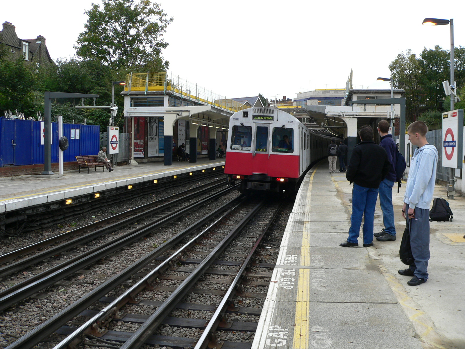 Unrefurbished London Underground District Line 'D'-stock electric multiple unit 7127 arrives into Ealing Common tube station on 22 October 2005.